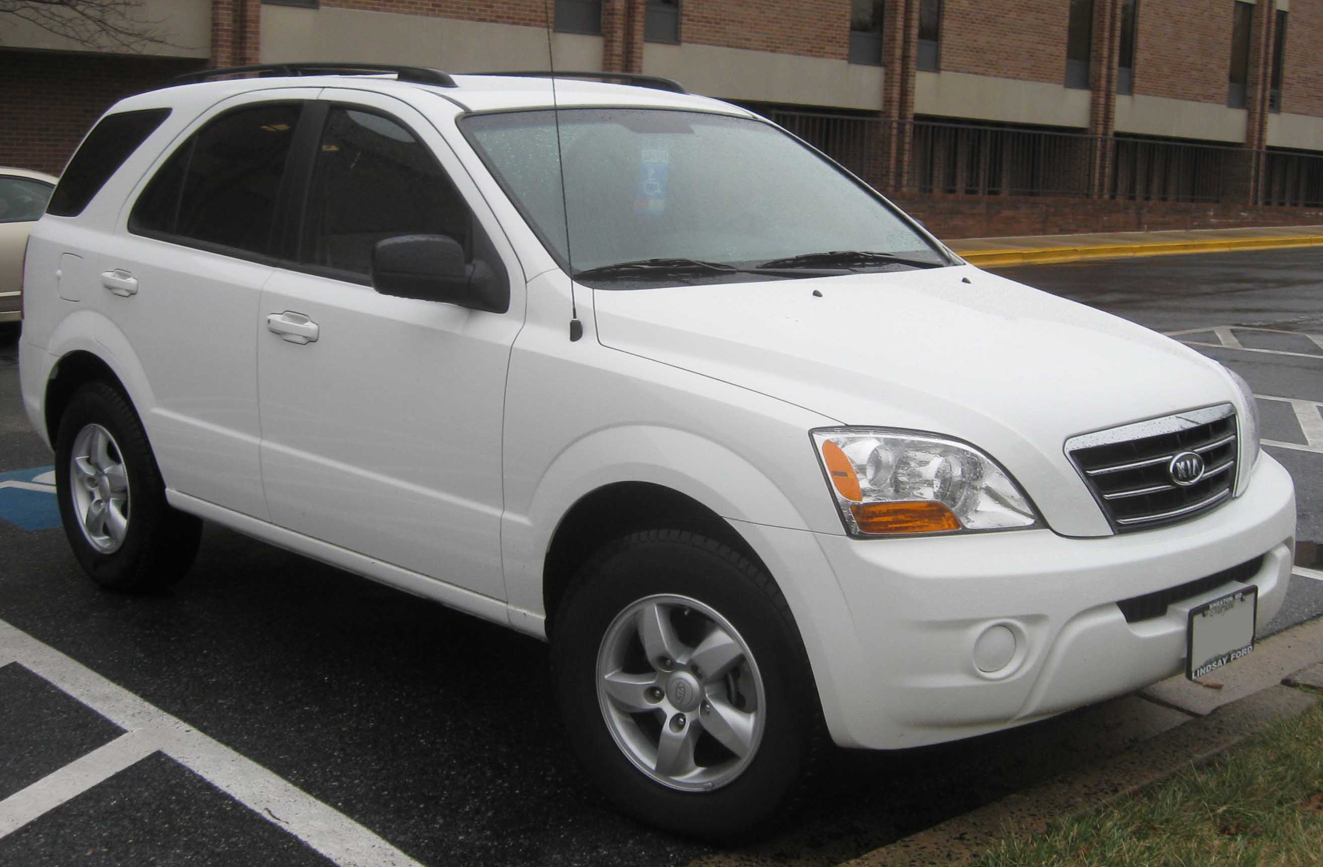 2007-2008 Kia Sorento photographed in Olney, Maryland, USA.